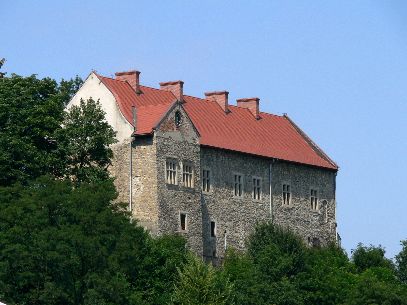 The Royal Castle in Sanok - 2008, Poland